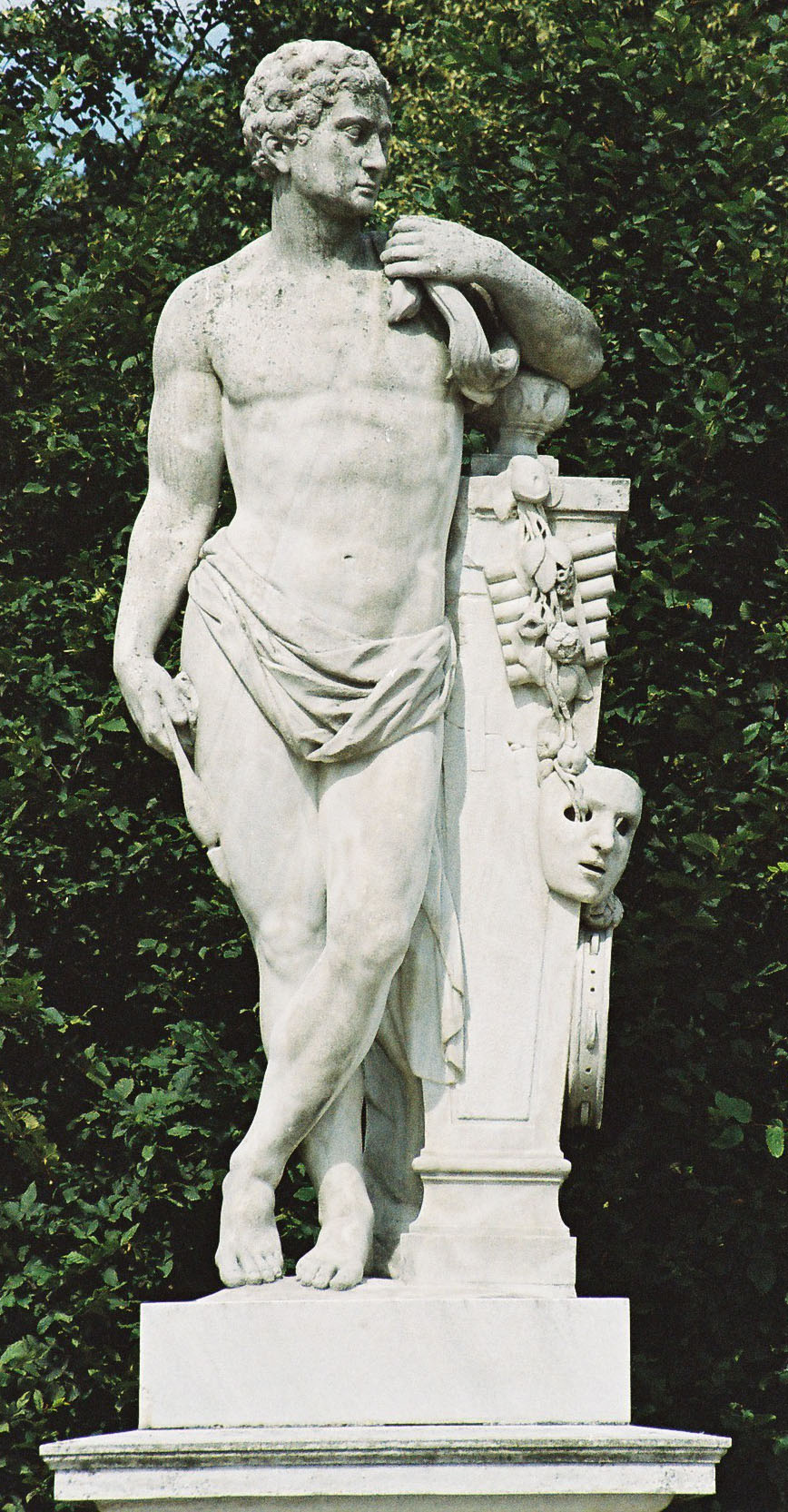 Vienna, Schönbrunn gardens, statue Heracles with spindle, working for Omphale, by Ignaz Platzer